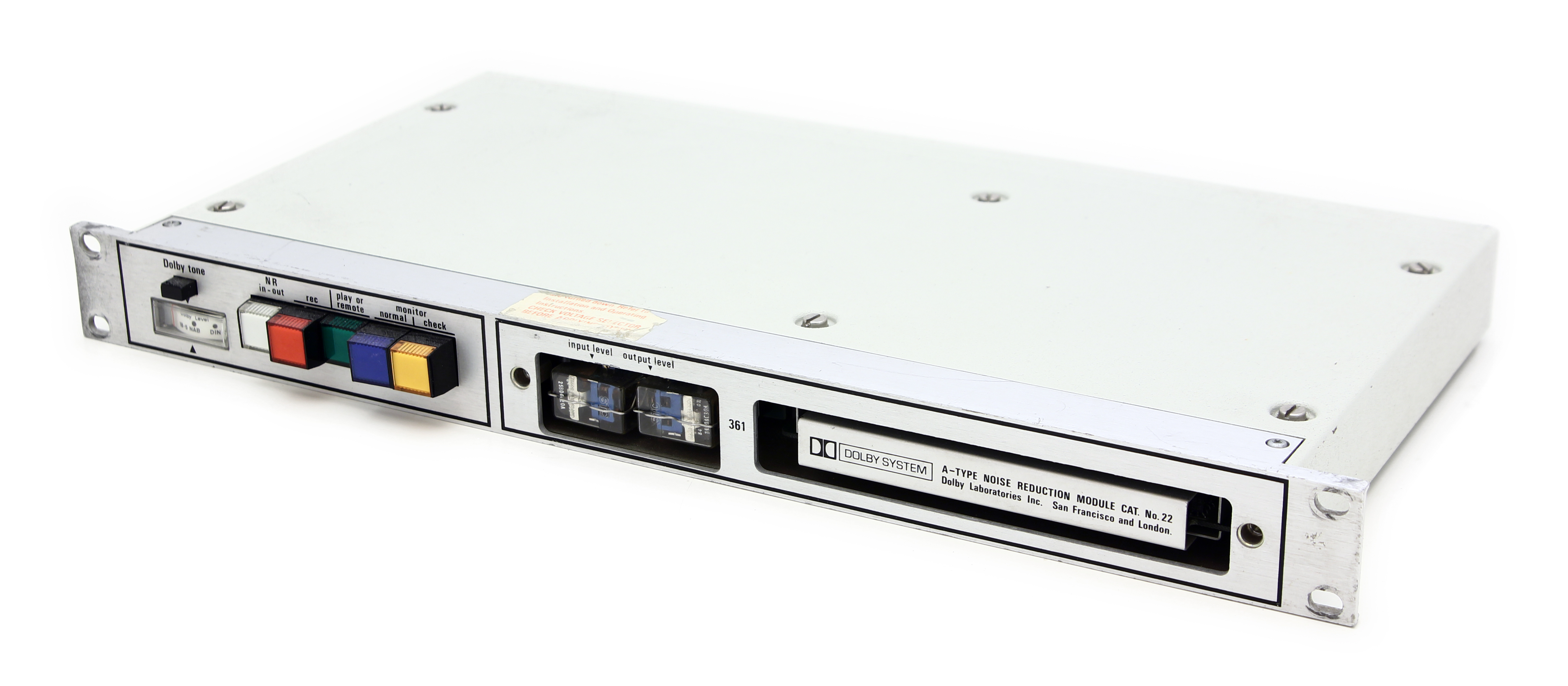 Dolby 361 A-type noise reduction module. Picture created by PJ October 18 2011 using the Canon EOS 550D camera with a Tamron 28-75 mm f/2.8 lens.